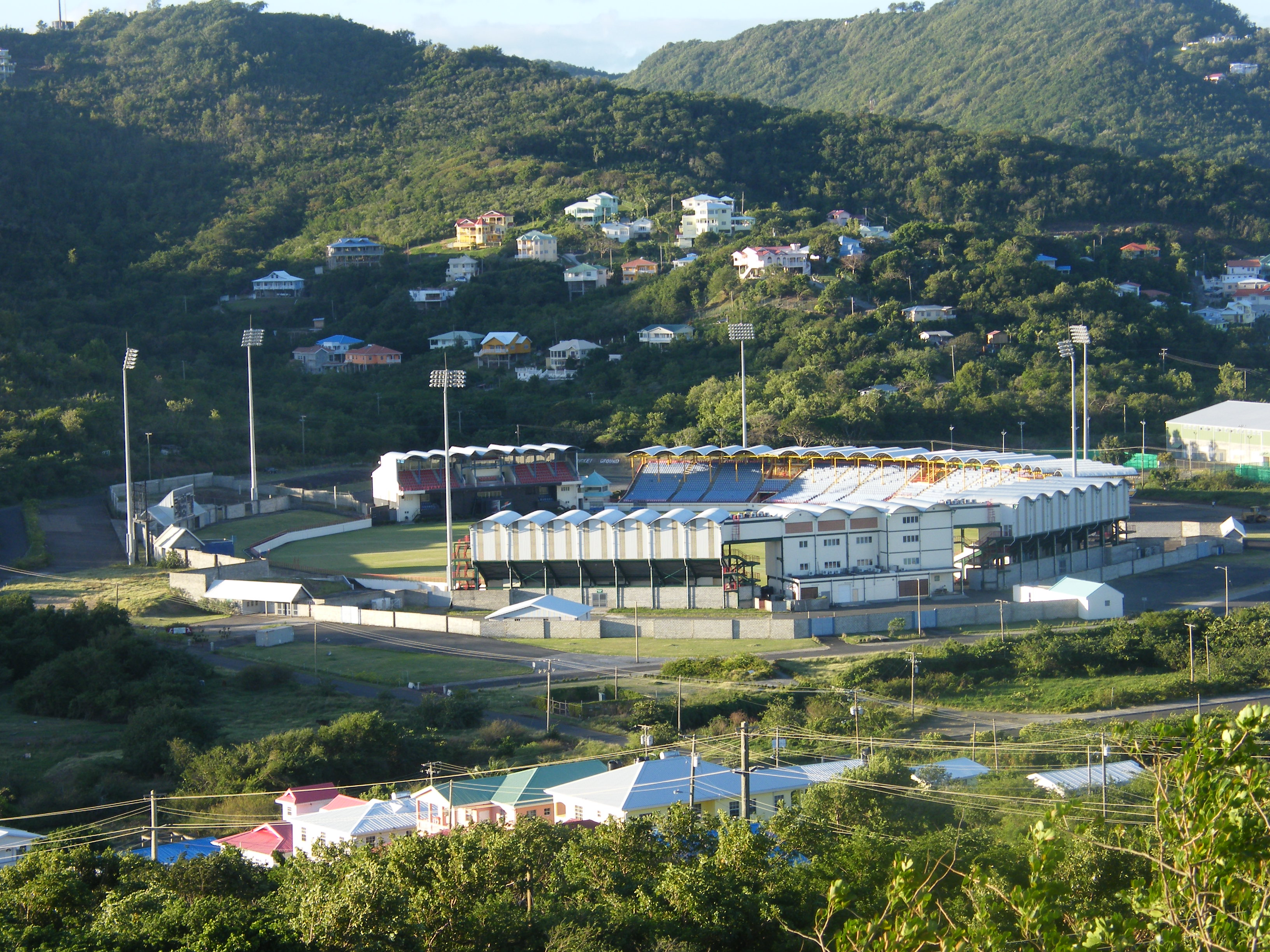 Photo of Beausejour Cricket Stadium taken from the HDC Phase 2 estate.